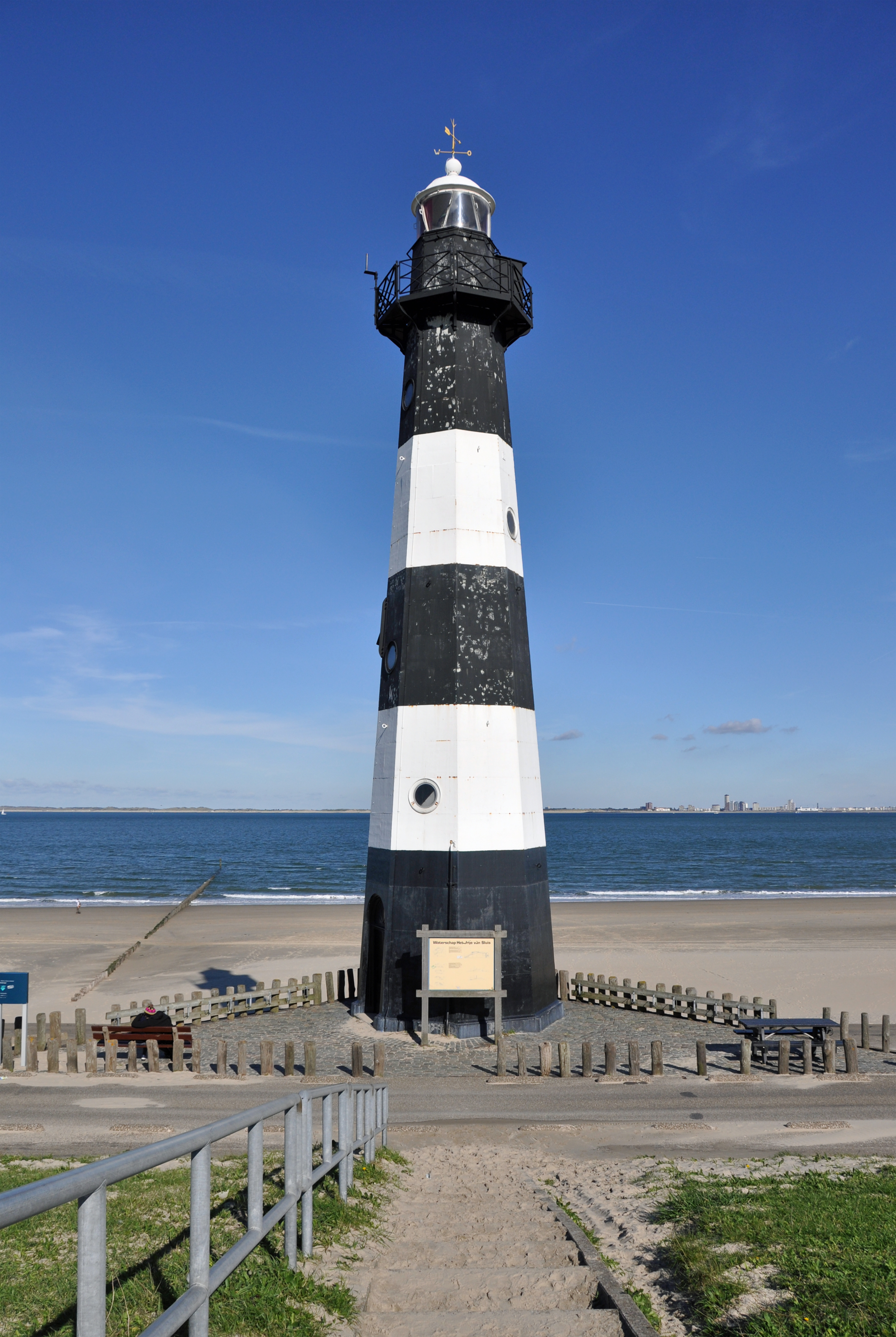 Nieuwesluis (Breskens, Sluis municipality, the Netherlands): lighthouse